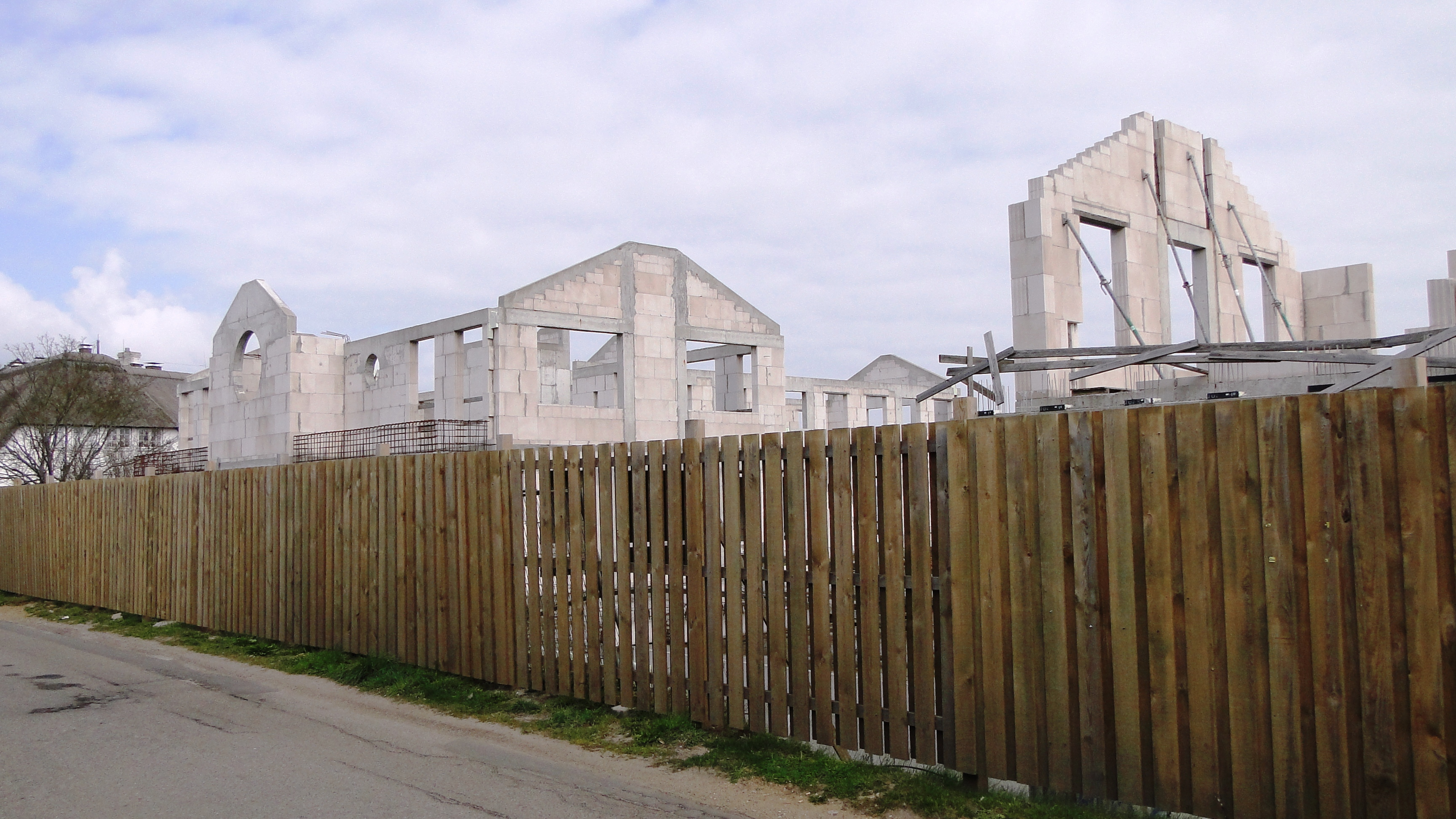 ruins of the Keitum-Therme, Keitum, Sylt, in 2012